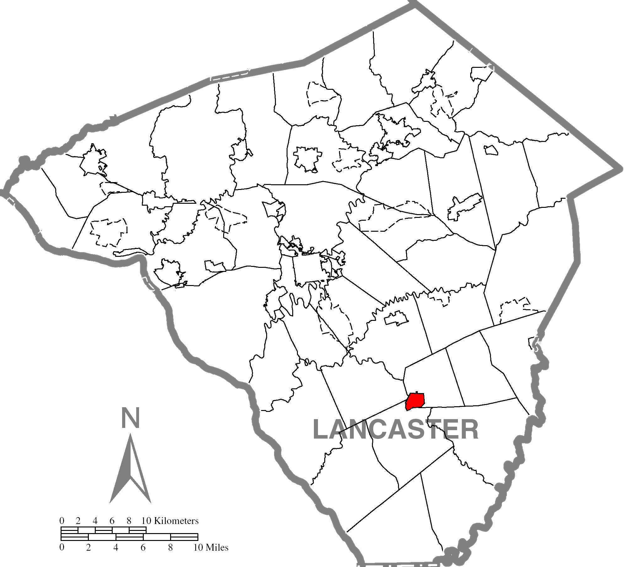 Highlighted Lancaster County map of Quarryville.